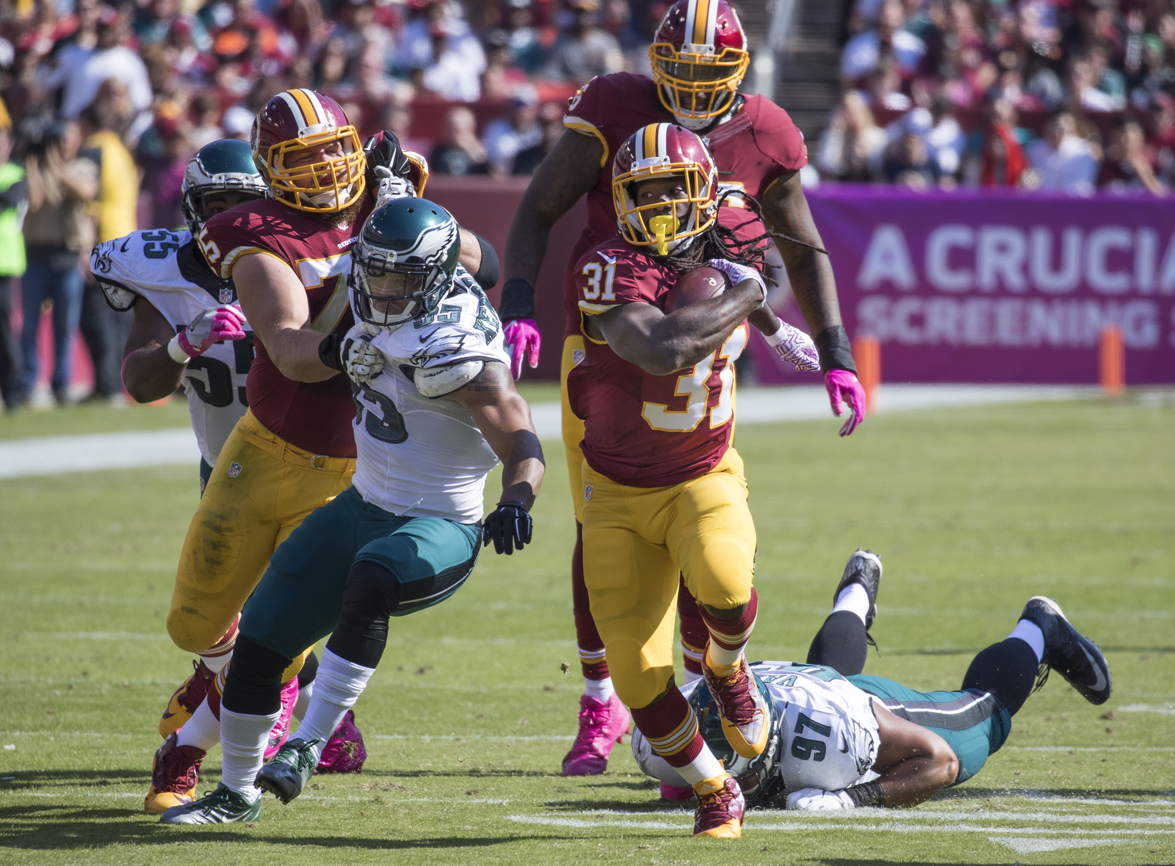 Running back Matt Jones of the Washington Redskins carries the ball in a game against the Philadelphia Eagles at FedExField on October 16, 2016 in Landover, Maryland.